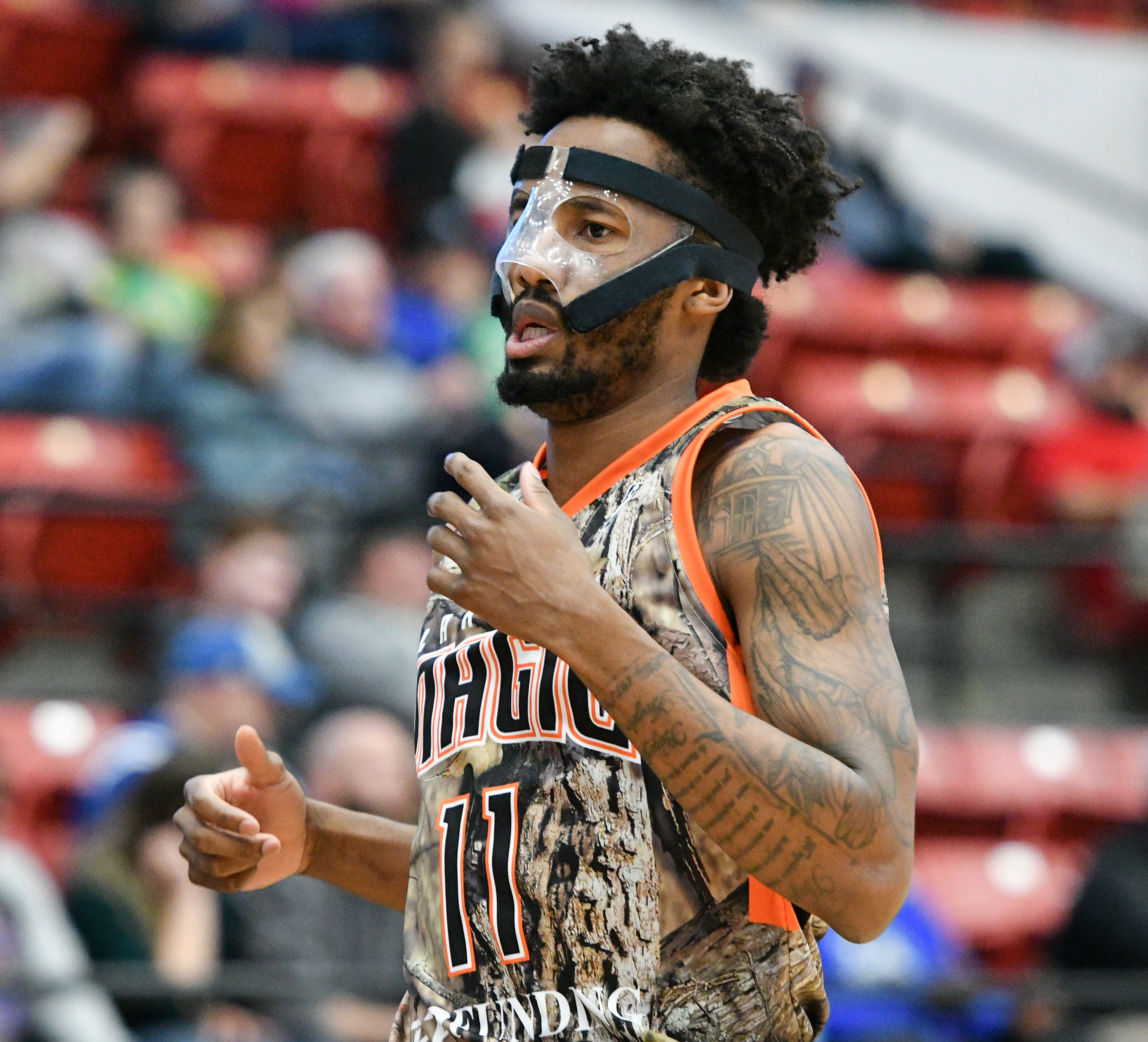 Lakeland Magic v Wisconsin Herd. RP Funding Center. Lakeland, Fla. Jan. 6, 2019. (Photo by Tom Hagerty.)